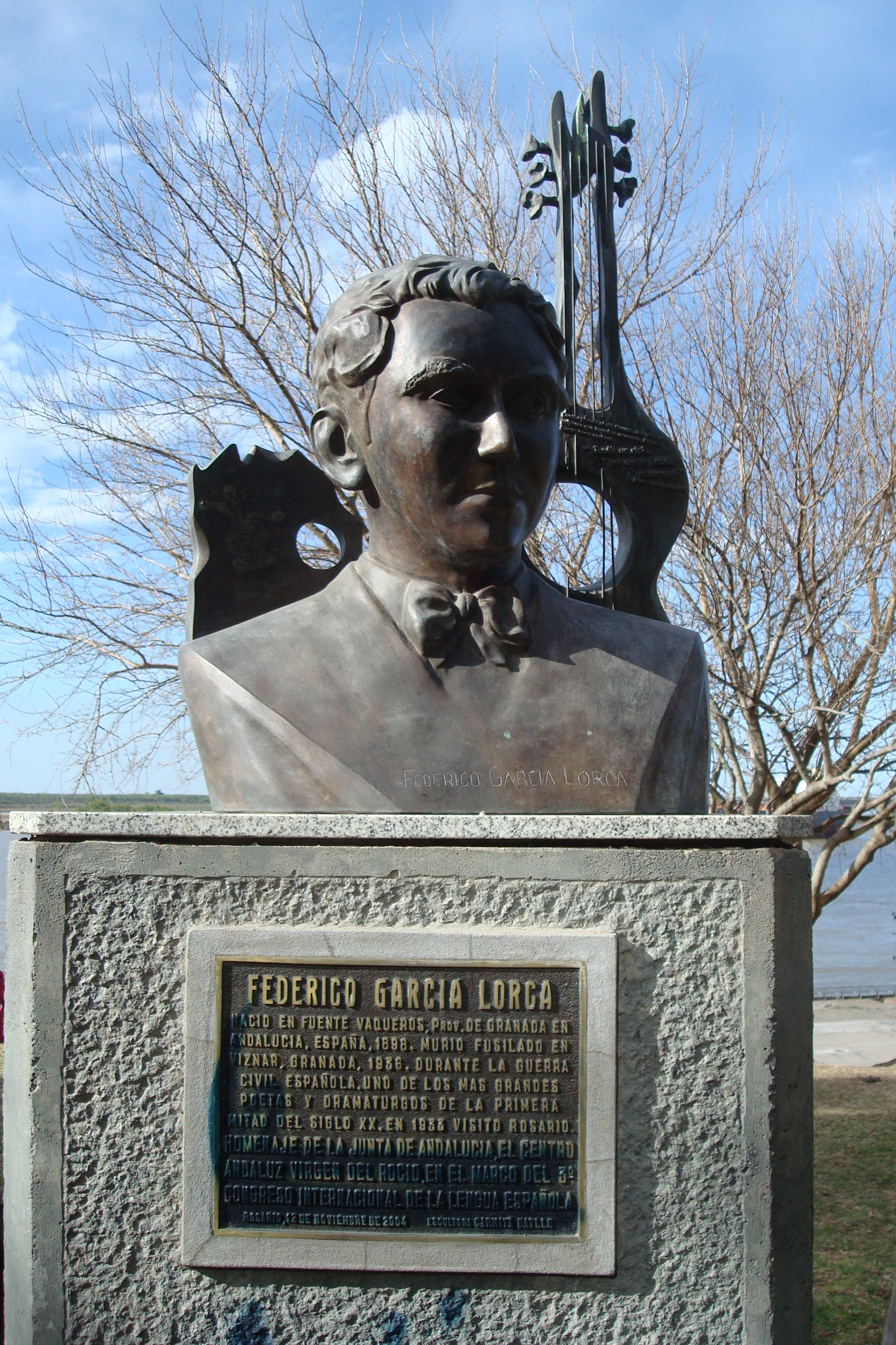 Bust of the spanish poet Federico García Lorca, in the España Park in Rosario city, Santa Fe, Argentina.